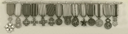 Eugene Bullard's, the first African-American military pilot, awards.